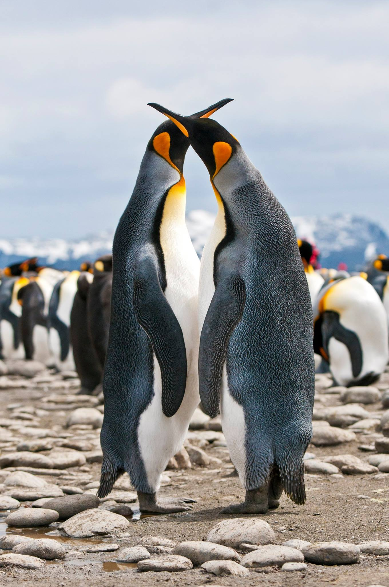 King penguin pair courting on Salisbury Plain, South Georgia Island.